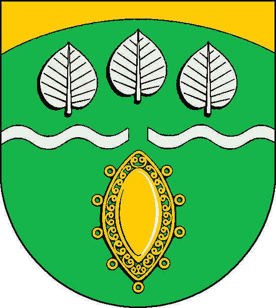 Coat of arms of the municipality Föhrden-Barl in Schleswig-Holstein, Germany.